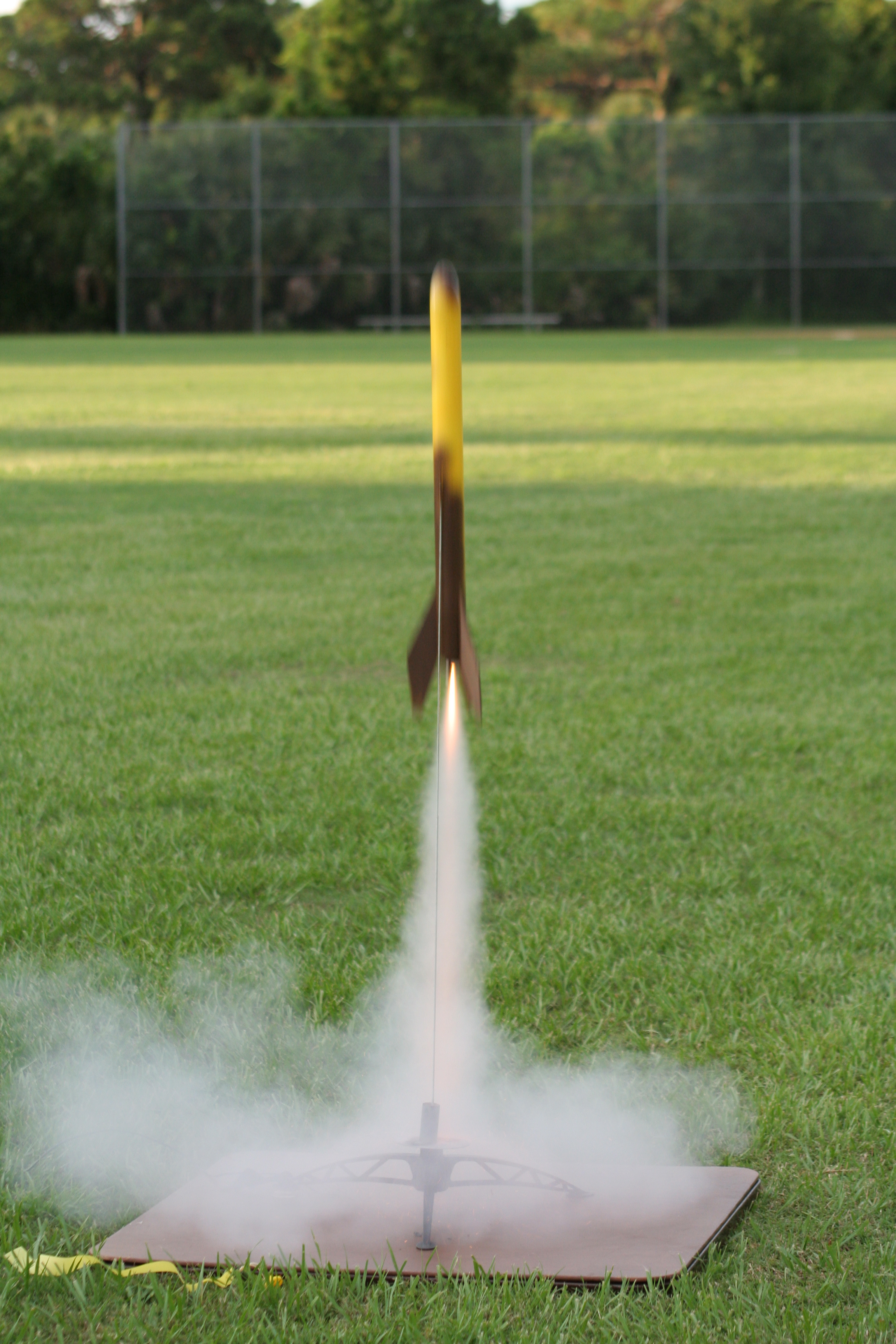 My brother's model rocket launching. Taken at Pine View School in Osprey, Florida.